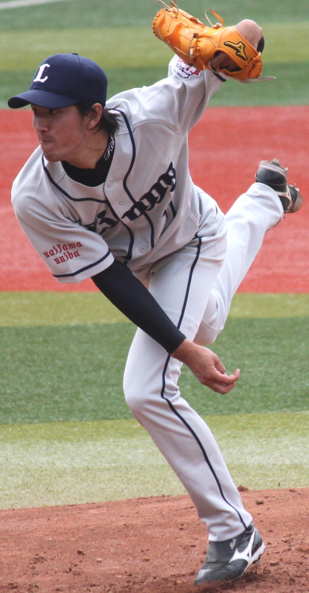 Takayuki Kishi, pitcher of the Saitama Seibu Lions, at Yokohama Stadium.